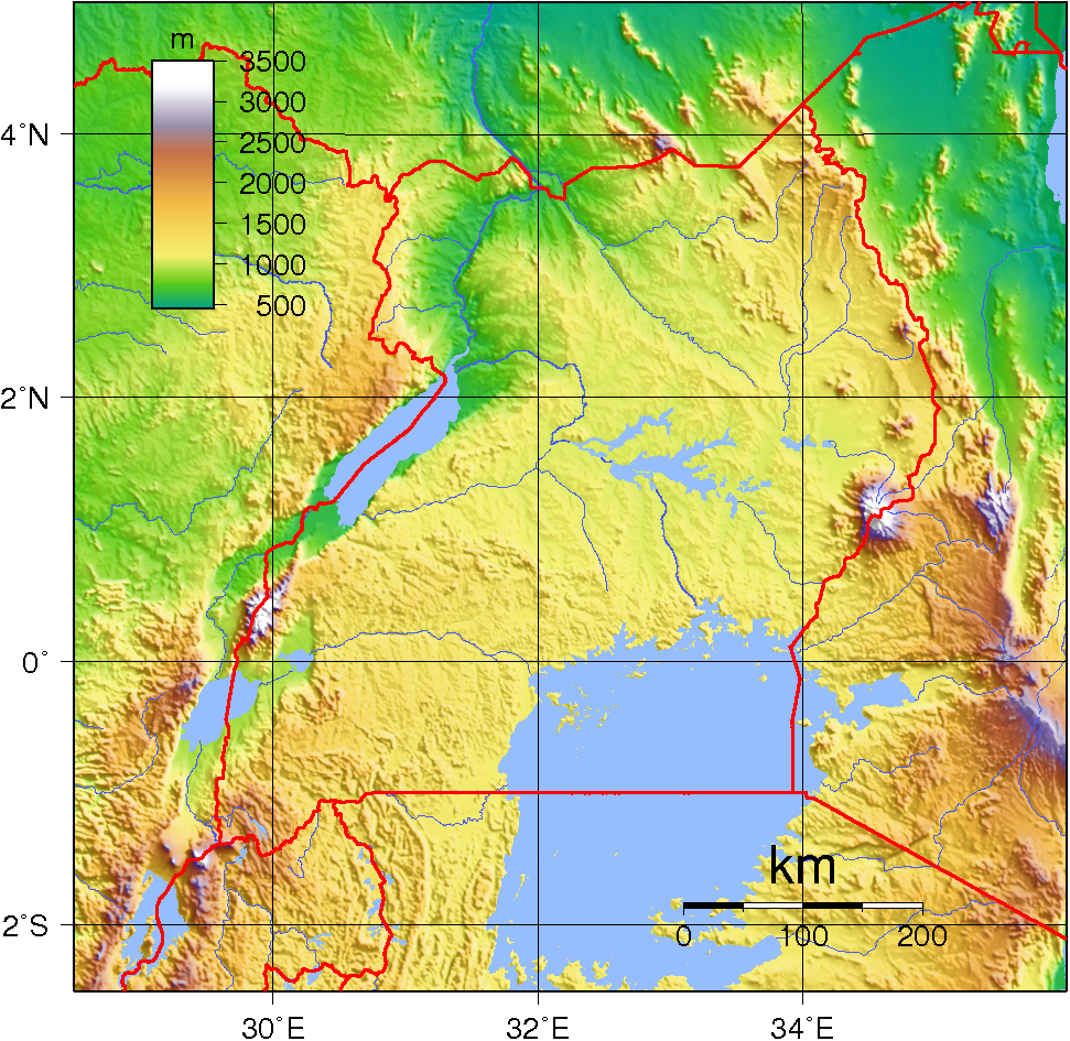 Topographic map of Uganda. Created with GMT from SRTM data.